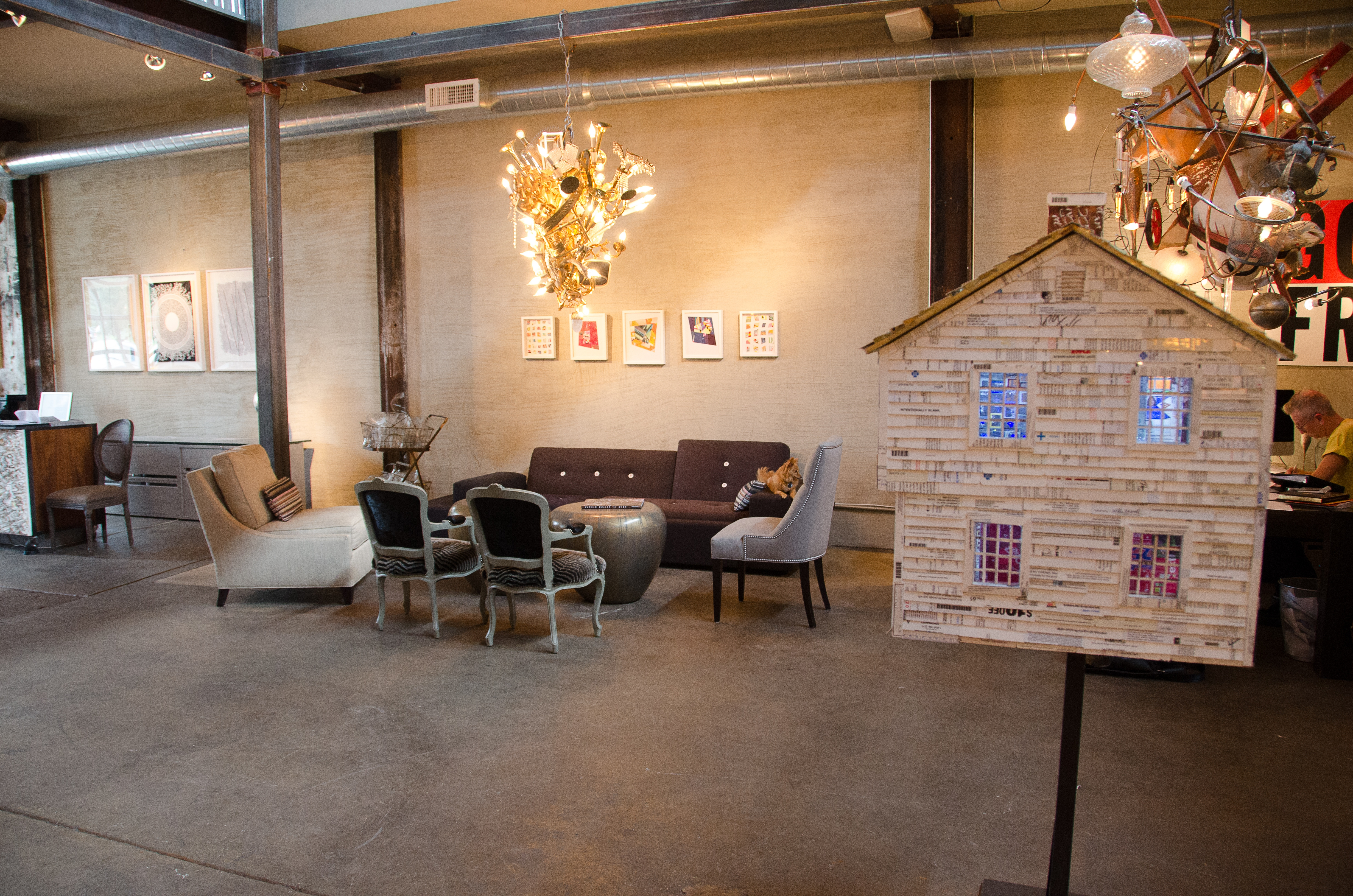 Installation shot of Current/Approaching exhibition at bahdeebahdu, in celebration of InLiquid's 15th anniversary. The show featured work by artists Kim Alsbrooks, Henry Bermudez, Mitch Gillette, Patrick Hay, Nicholas Kripal, Roberto Lugo, Michelle Marcuse, Amy Orr, Mark Price, and Buy Shaver.